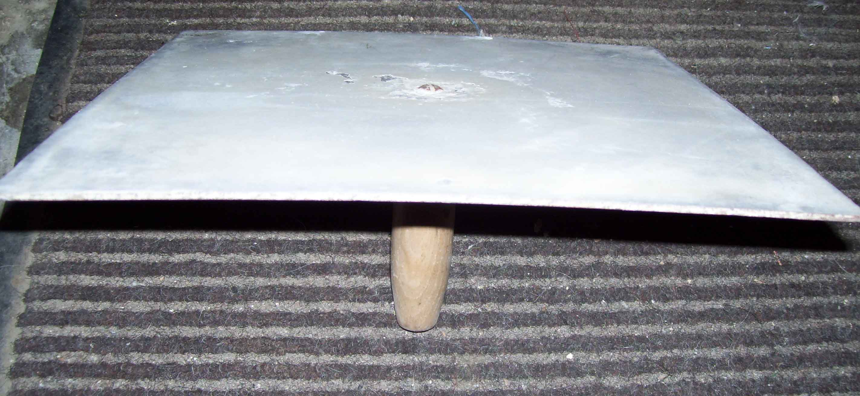 A plasterer's hawk -- a board with an attached handle, used for holding wet plaster or mortar. Also known as a 'mortarboard'.